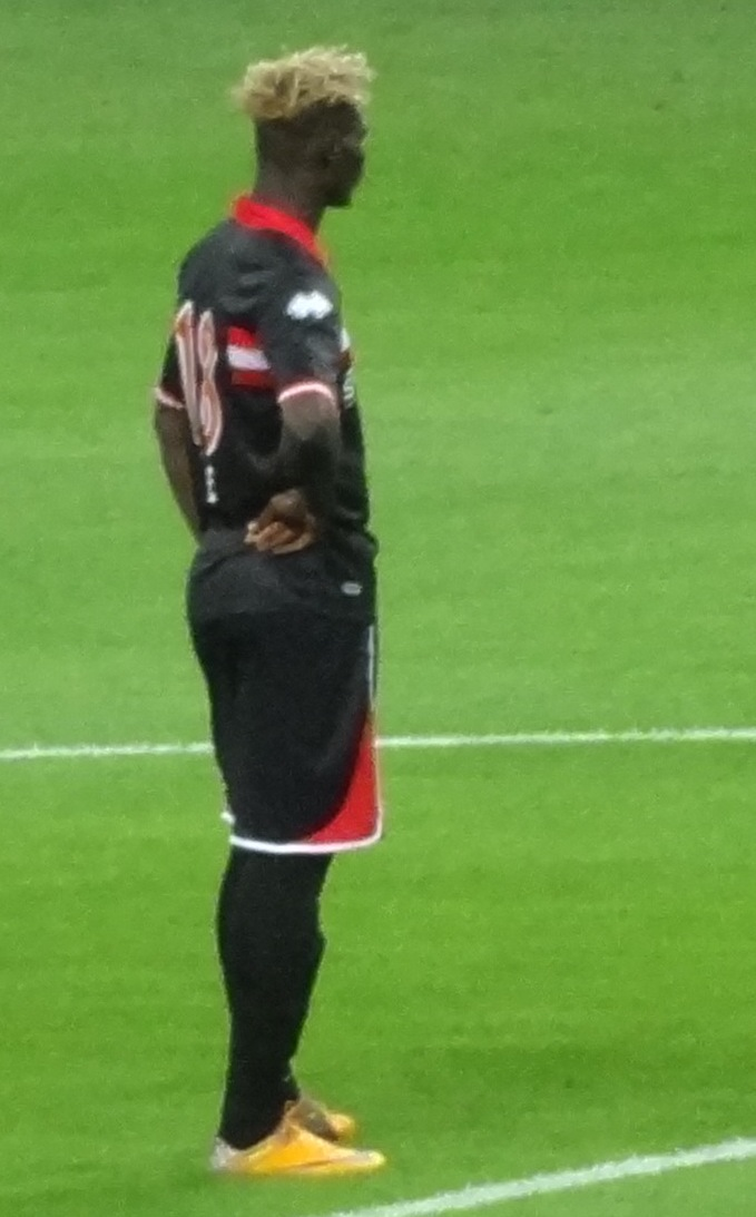 Bance @ Gs-Samsunspor which they lose 3-1